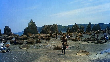 Hashiguiiwa Rock, Kushimoto.